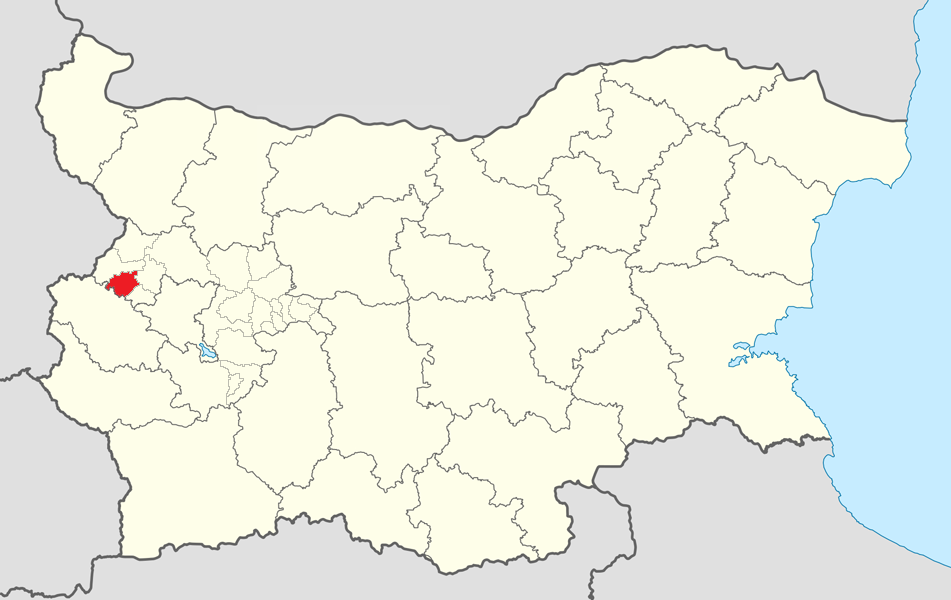 Location map of Slivnitsa Municipality within Bulgaria and Sofia province